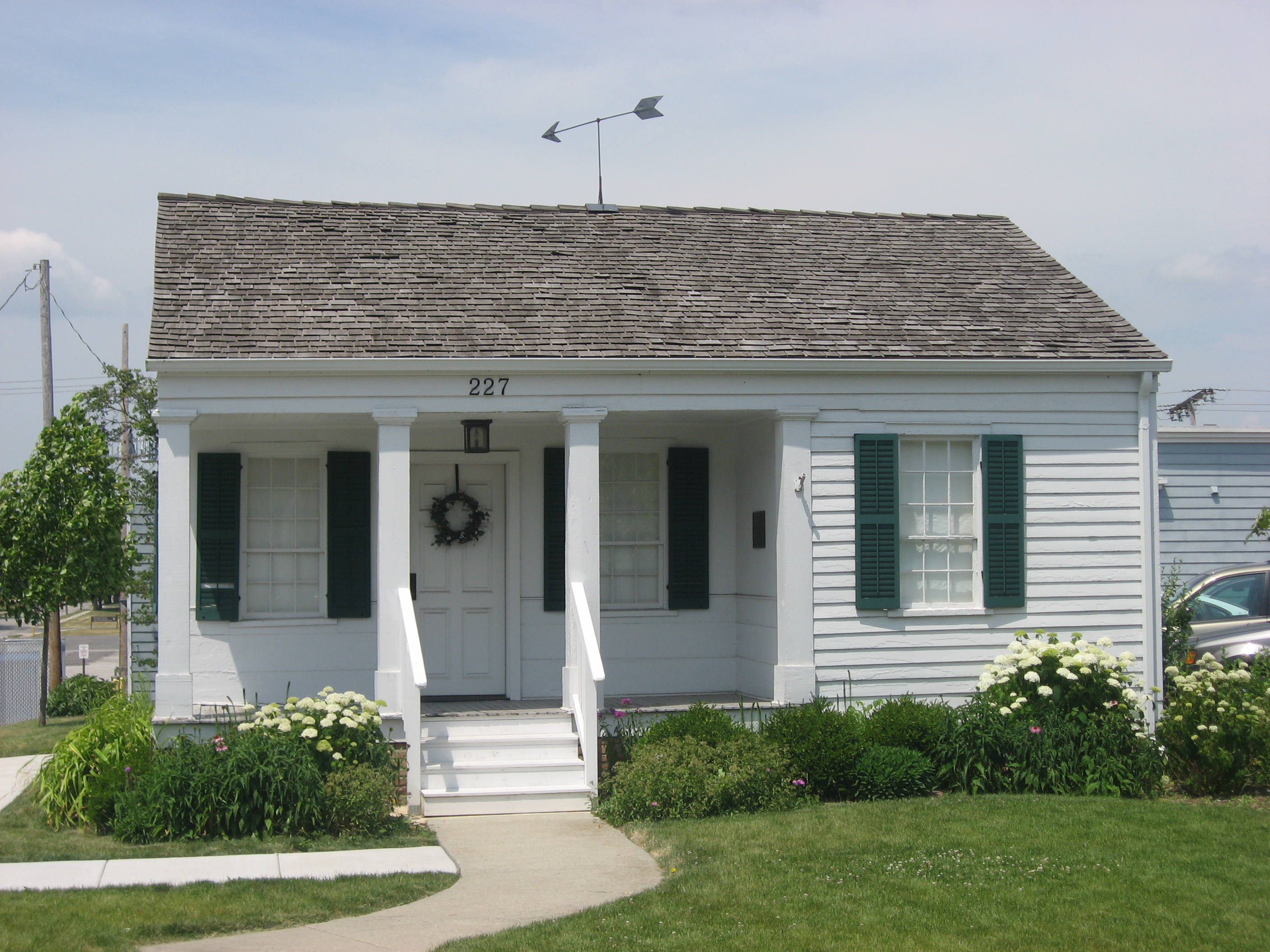 Front of the Wellington A. Clark House, located at 227 S. Court Street in Crown Point, Indiana, United States. Built in 1847, it is listed on the National Register of Historic Places, and it is part of a Register-listed historic district, the Crown Point Courthouse Square Historic District.